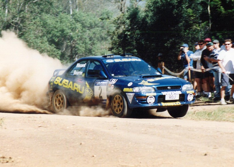 Possum Bourne (Subaru Impreza WRX) at Rally Queensland in 1998